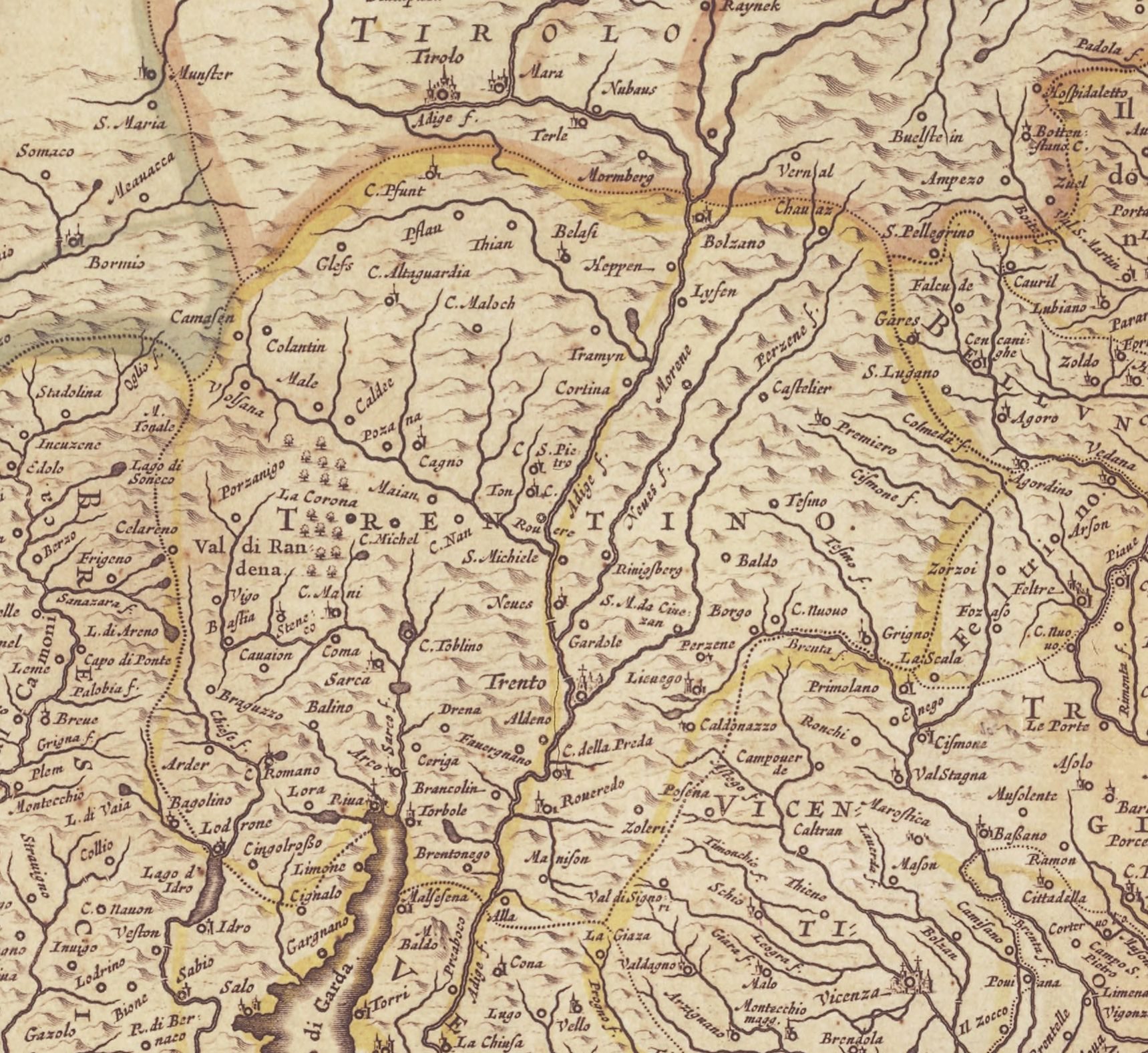 Map of Trentino in 17th century.